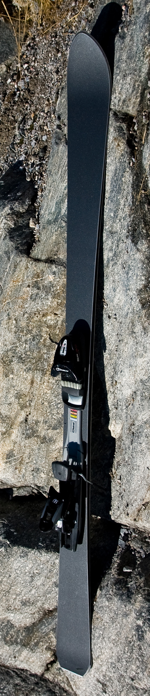 carving ski sidewall laminated